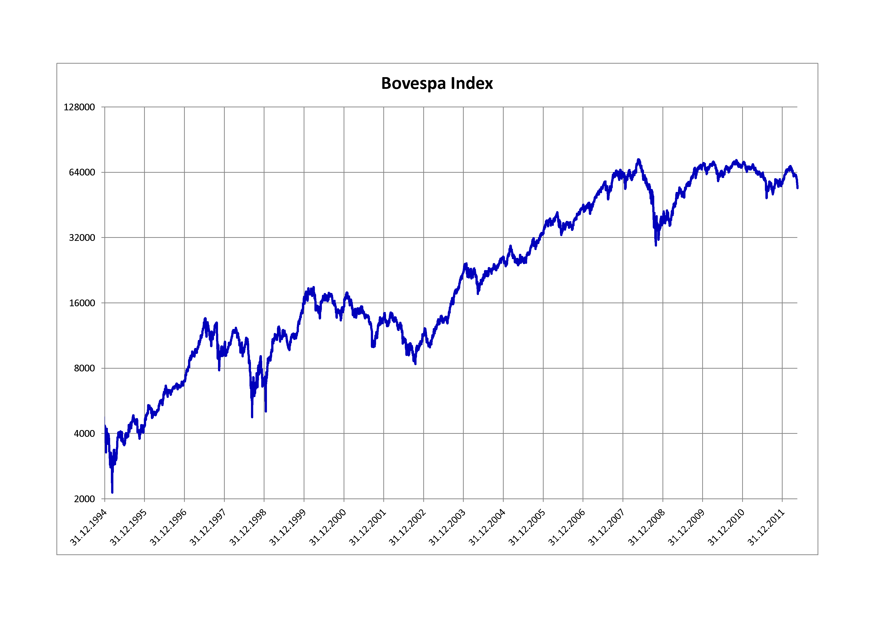 Bovespa Index from December 1994 to May 2012 (daily closings).